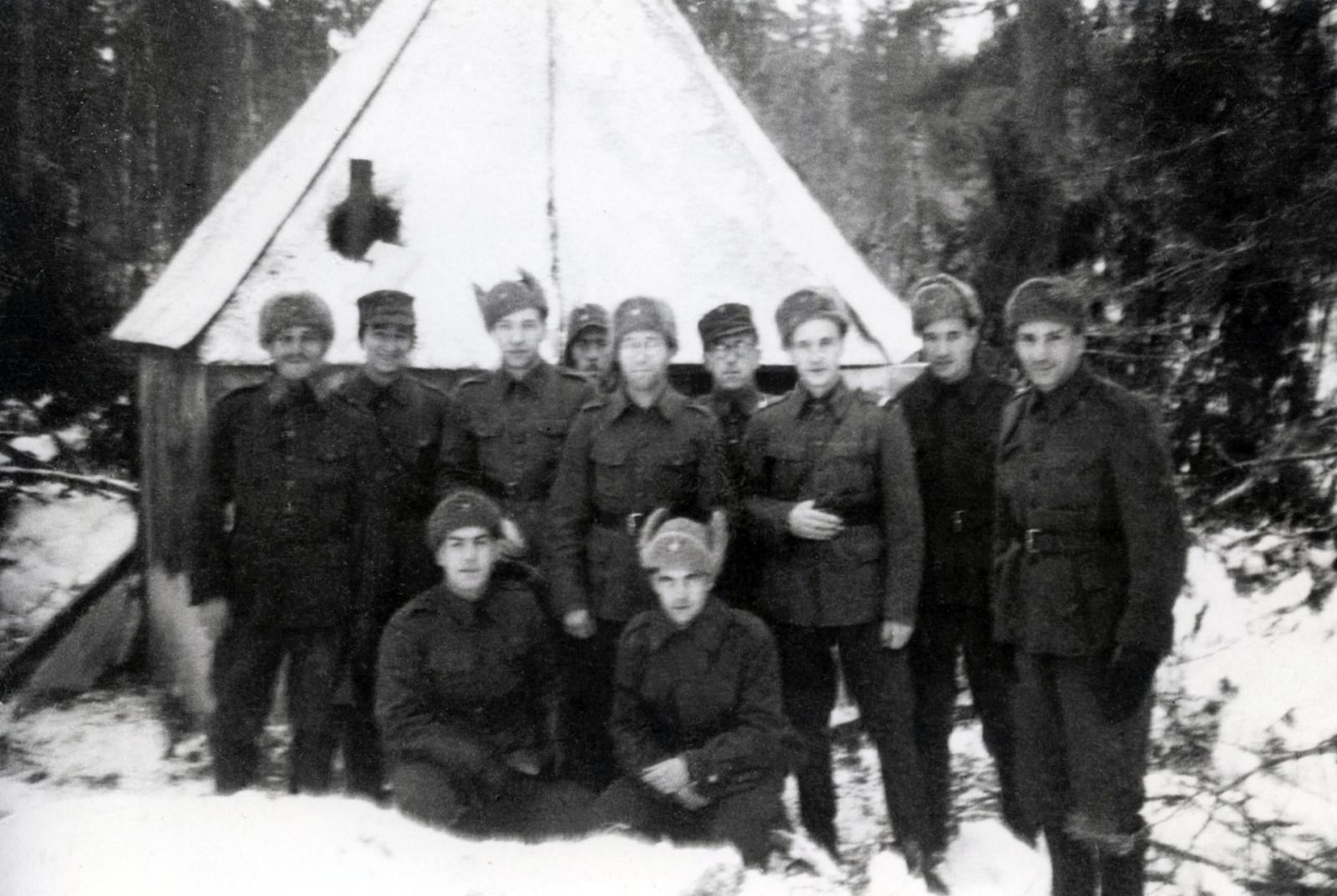 Photograph of a Finnish field Synagogue at World War II (Continuation War) with soldiers standing in front of it. Back row: Herman Berman, Leo Epstein, Daniel Wardi (Waprinsky), Bernhard Kapri, Abner Zewi, Jacob Manuel, Ruben Stiller, David Wardi (Waprinsky), Samuel Chalupovitsch. Front row: Isak Smolar and Abraham Scheiman. Photographed somewhere near Syväri (Svir).